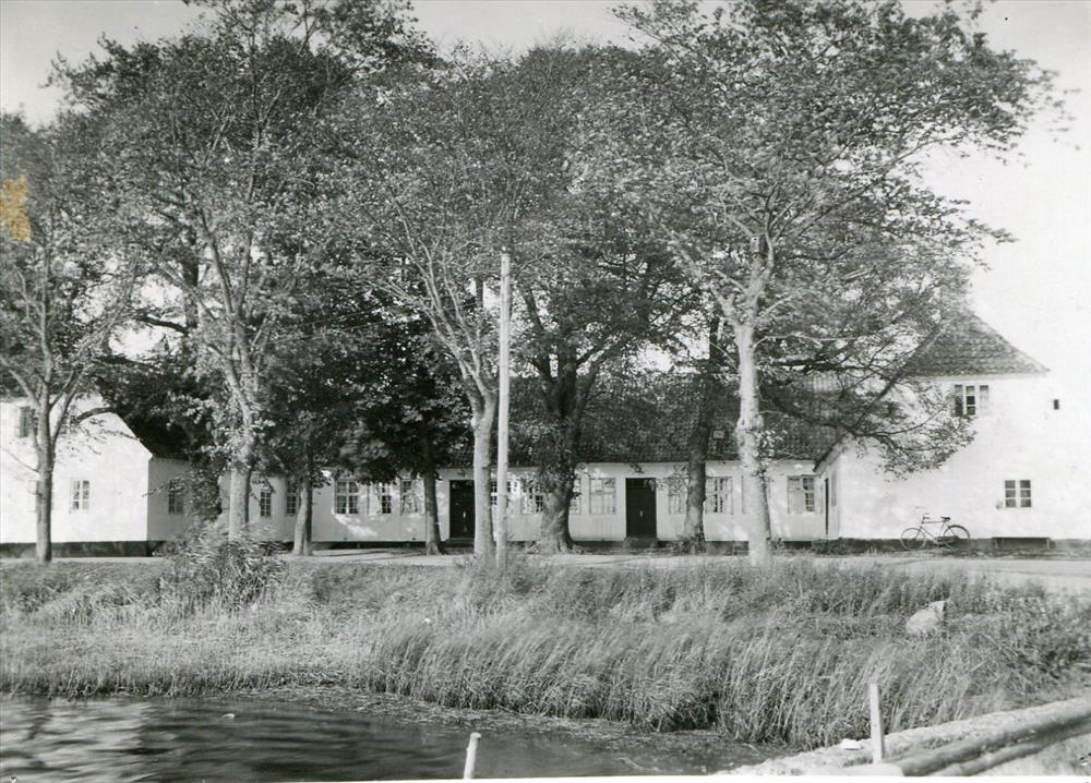 Gåbense Frægegård in Gåbense on Galster in Denmark